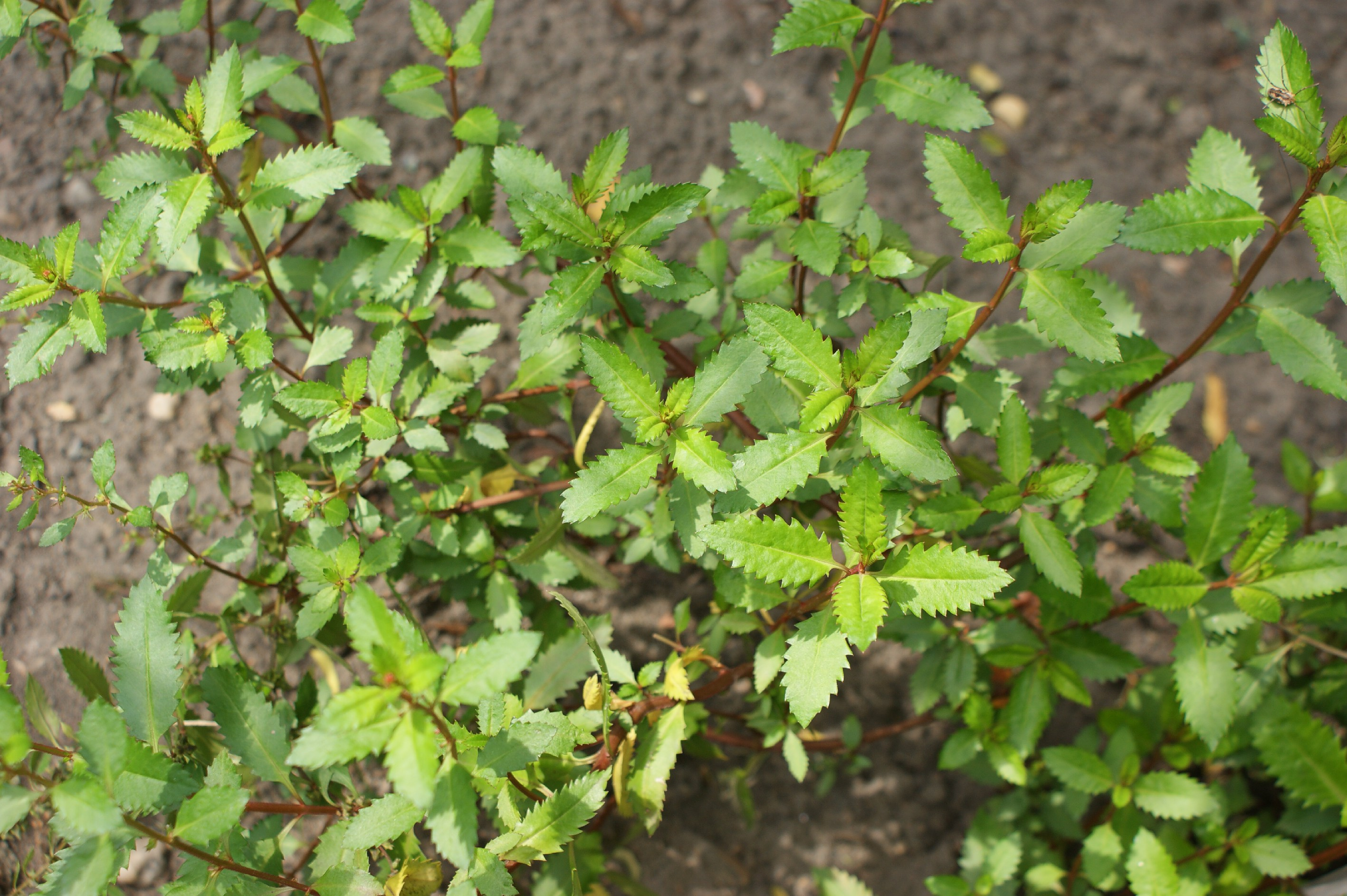 Haloragis erecta, Botanical Garden in Wroclaw, Poland